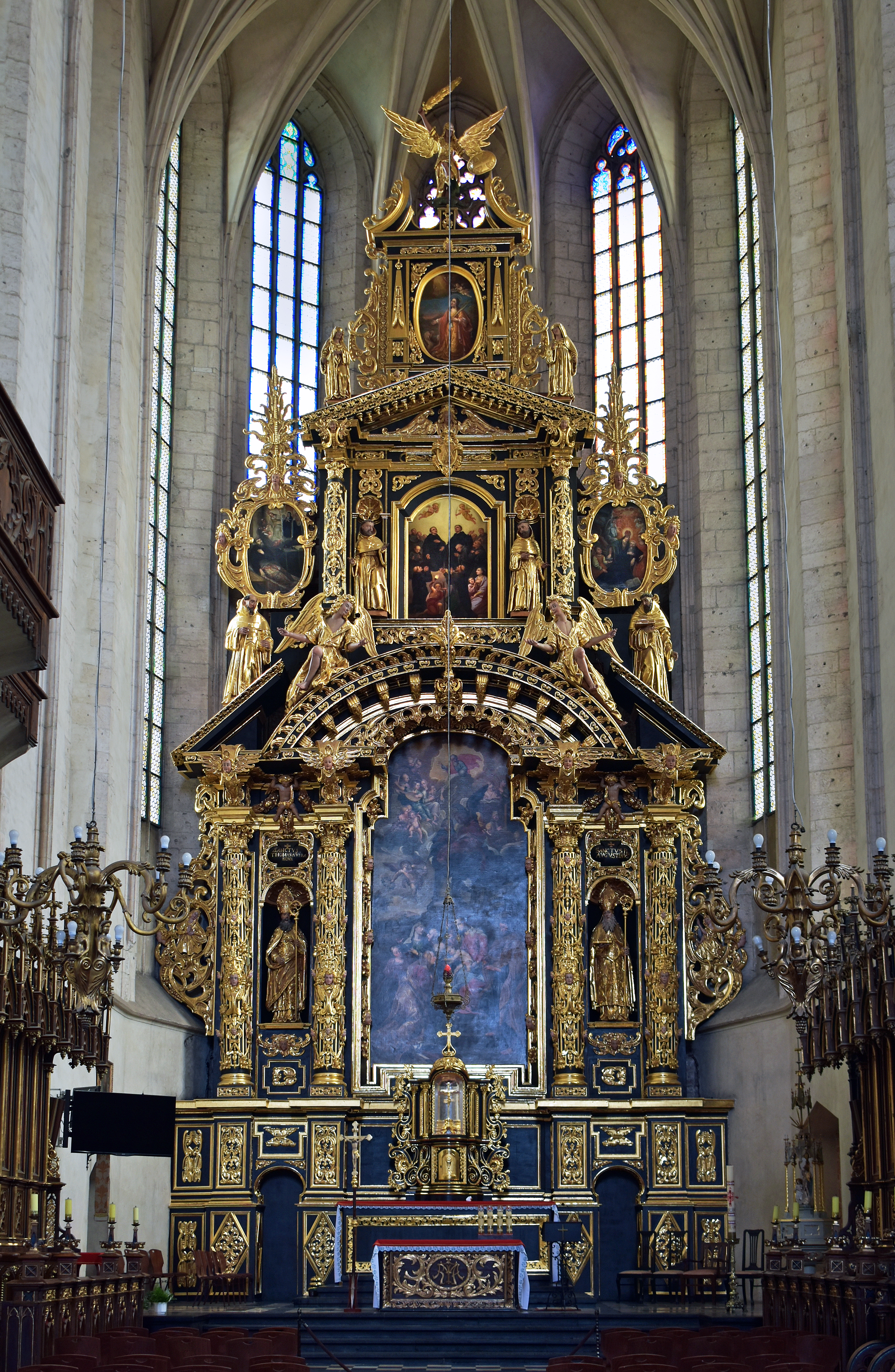 Church of St. Catherine of Alexandria and St. Margaret, main altar, 7-9 Augustiańska street, Kazimierz, Kraków, Poland